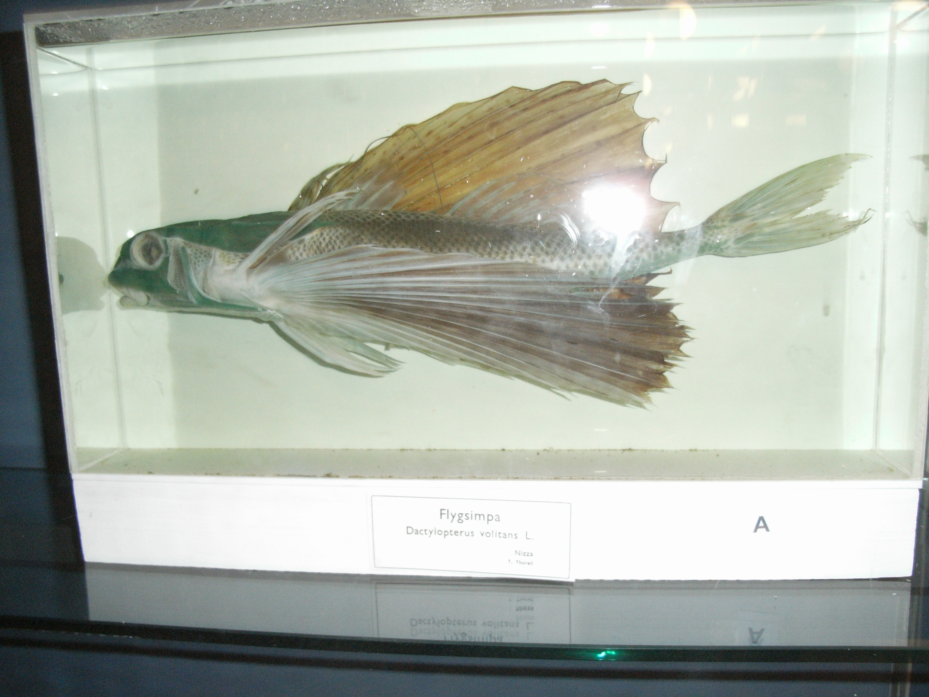 Evolutionsmuseet Uppsala Gallery Flying Fish